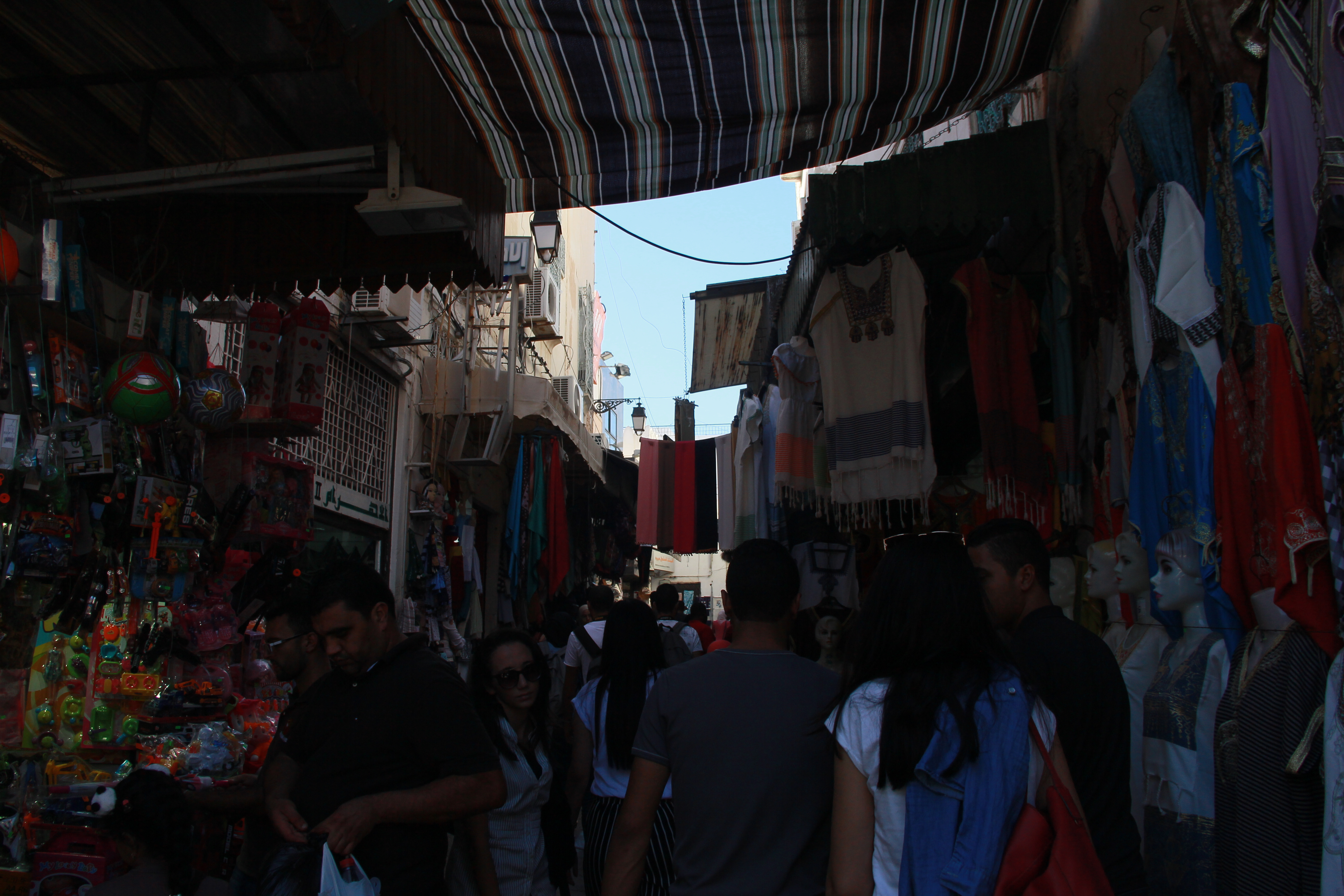 سوق الجمعة